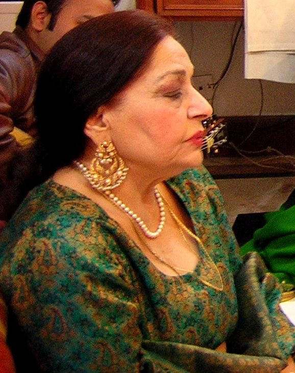 Pakistani Ghazal singer Farida Khanum in her hotel room, rehearsing for a show in New Delhi